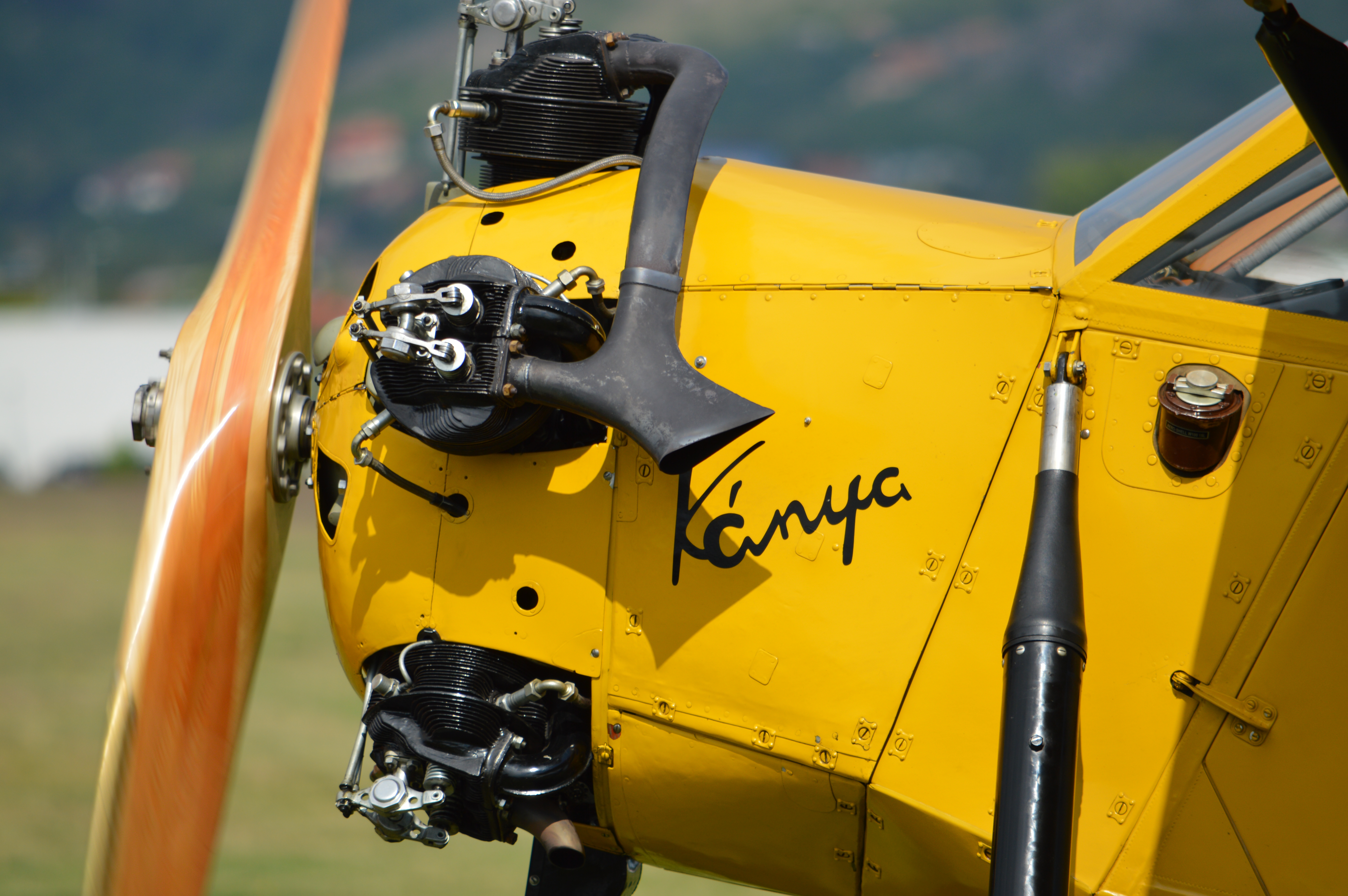 Rubik R-18c Kánya liaison aircraft and glider tug (reg. HA-RUF) in Budaörs airfield, Hungary